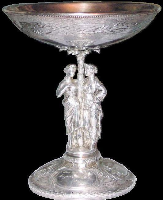 Louis Guillaume Fulconis, The Copa Santa, a silver cup offered to Frédéric Mistral.